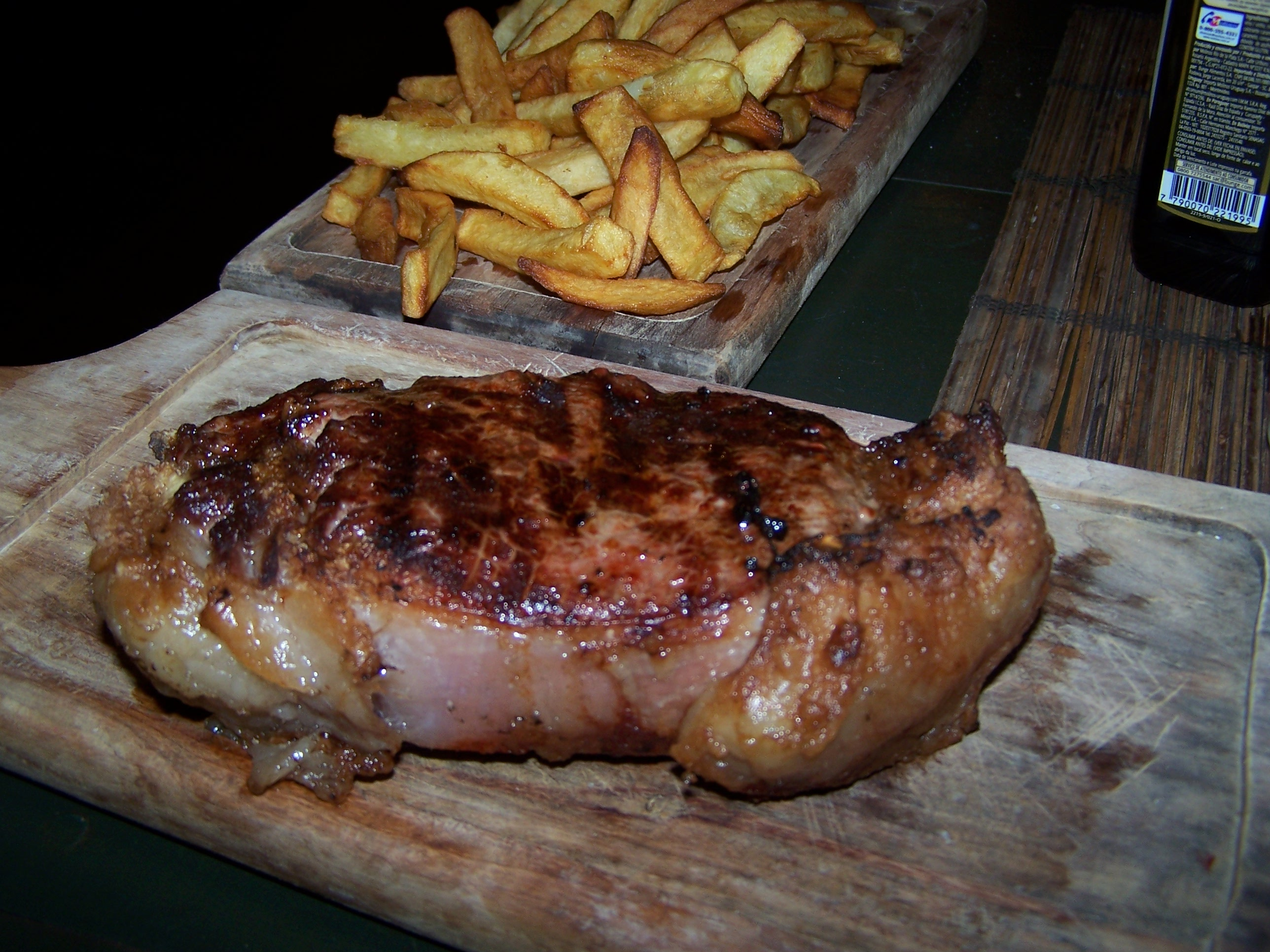 Argentina Steak, Puerto Iguazu, Argentina.